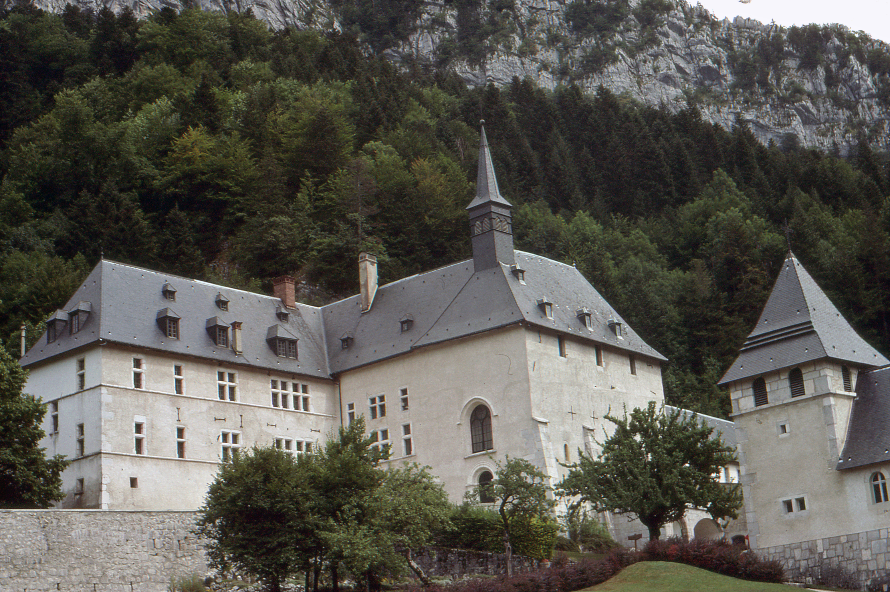 Correrie and Visitors' Chapel.